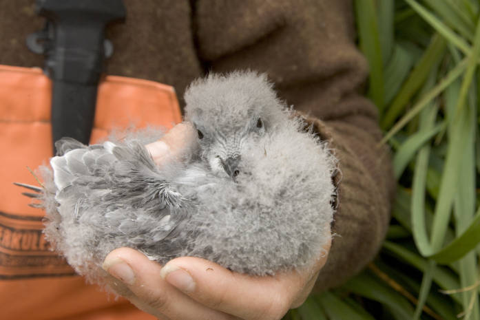 Alaska Maritime National Wildlife Refuge Photo: Steve Hillebrand, USFWS